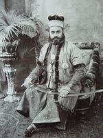 Sir Amir-ud-din Ahmad Khan, Nawab of Loharu, r.1884-1920. India. Images references